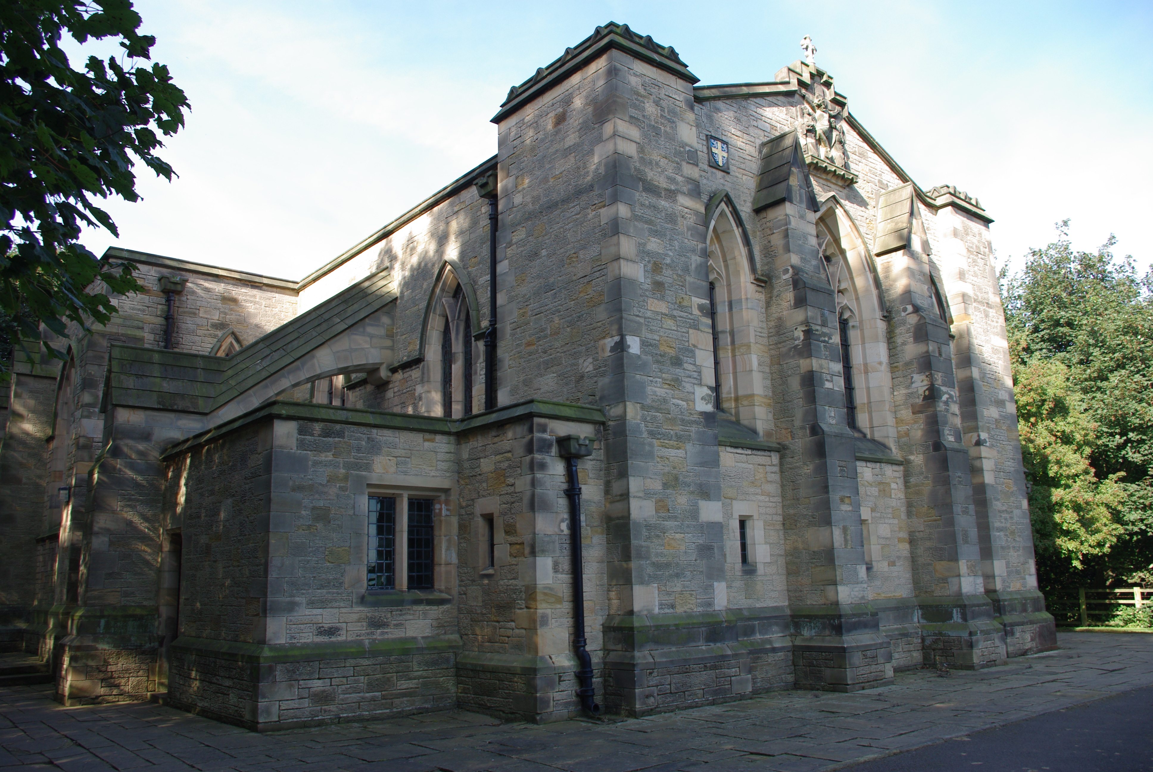 A closeup image of the chapel at Durham School.